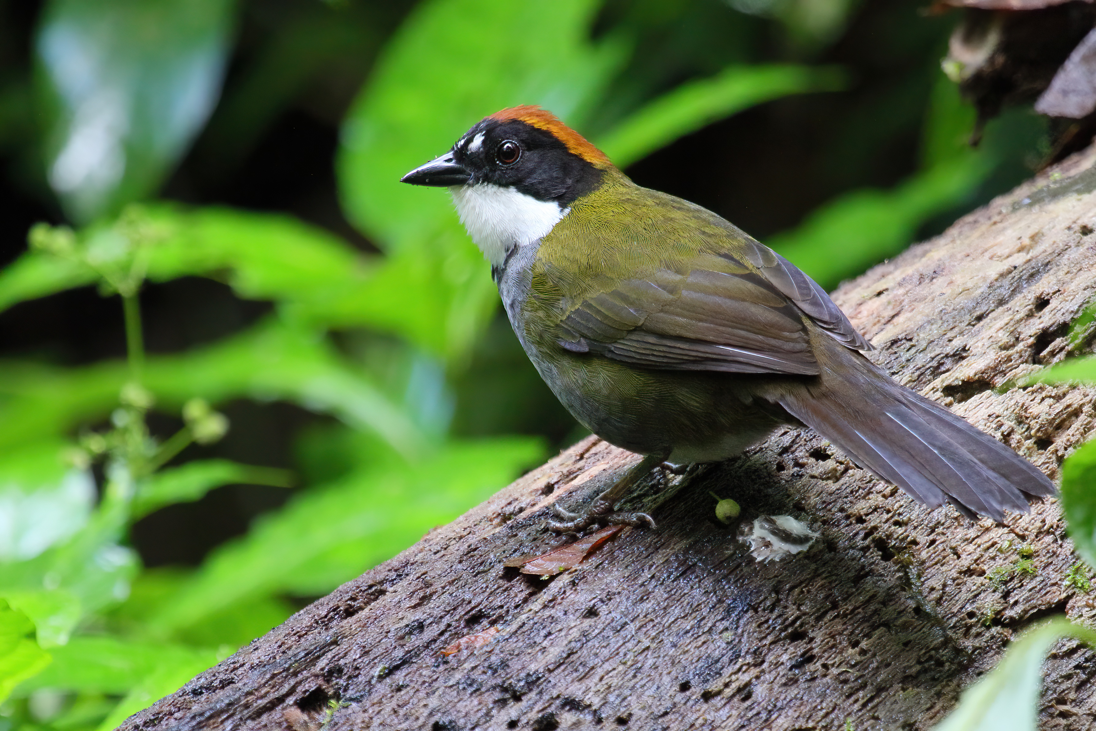 Chestnut-capped brush finch, Monteverde Cloud Forest Reserve, Costa Rica